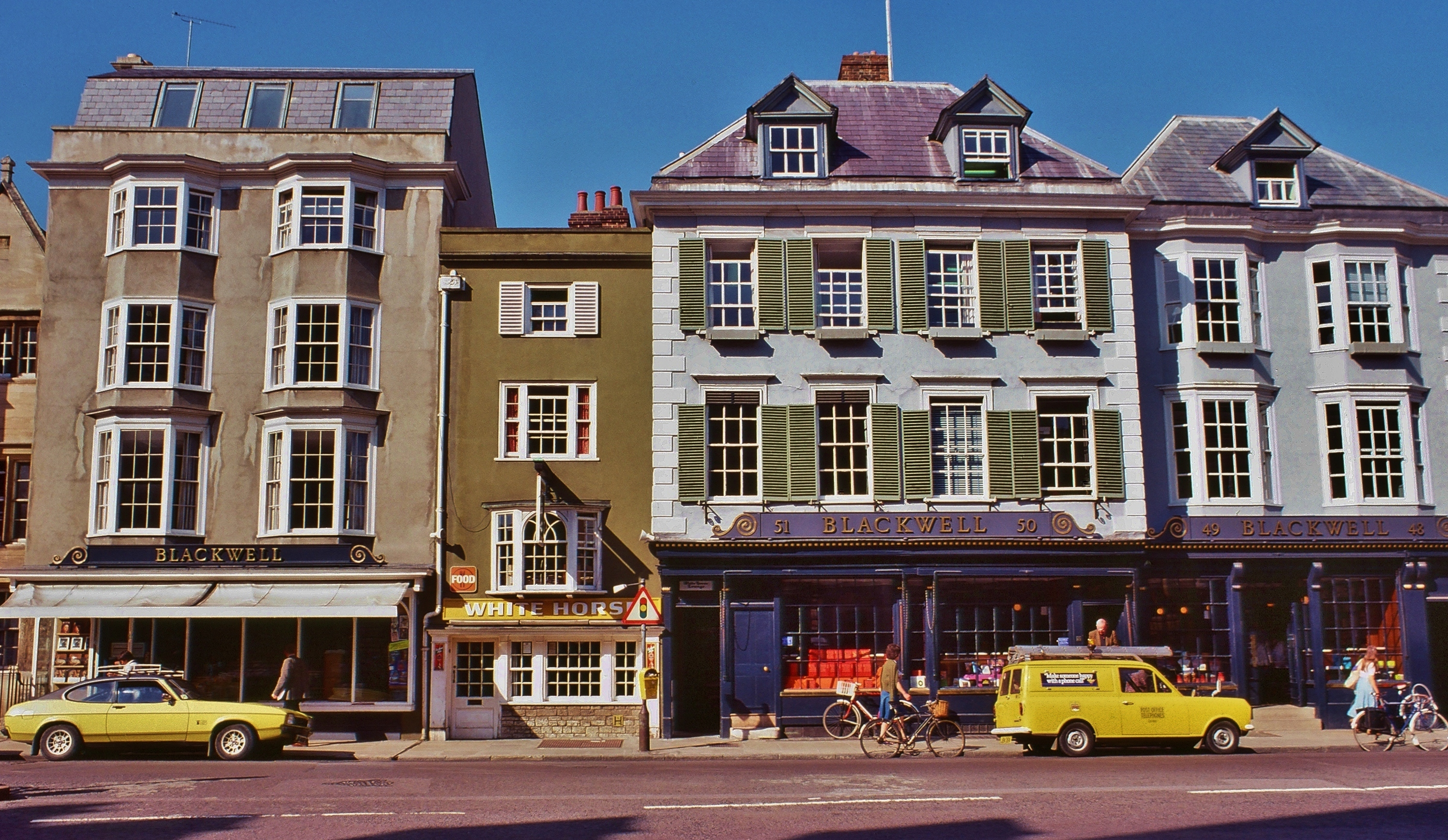 Broad Street of Oxford in September 1977.